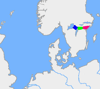 The old forest border between Swedes (Suiones) and Geats. Blue=Tiveden; green=Tylöskog; red=Kolmården my own map, based on User:Dbachmann's blank map. This historical map image could be recreated using vector graphics as an SVG file. This has several advantages; see Commons:Media for cleanup for more information. If an SVG form of this image is available, please upload it and afterwards replace this template with vector version available|new image name . It is recommended to name the SVG file "The old border forests.svg" - then the template Vector version available (or Vva) does not need the new image name parameter.